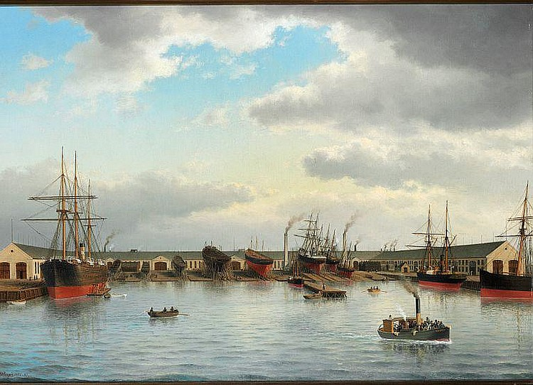 The B&W shipyard at Refshaleøen in Copenhagen, Denmark